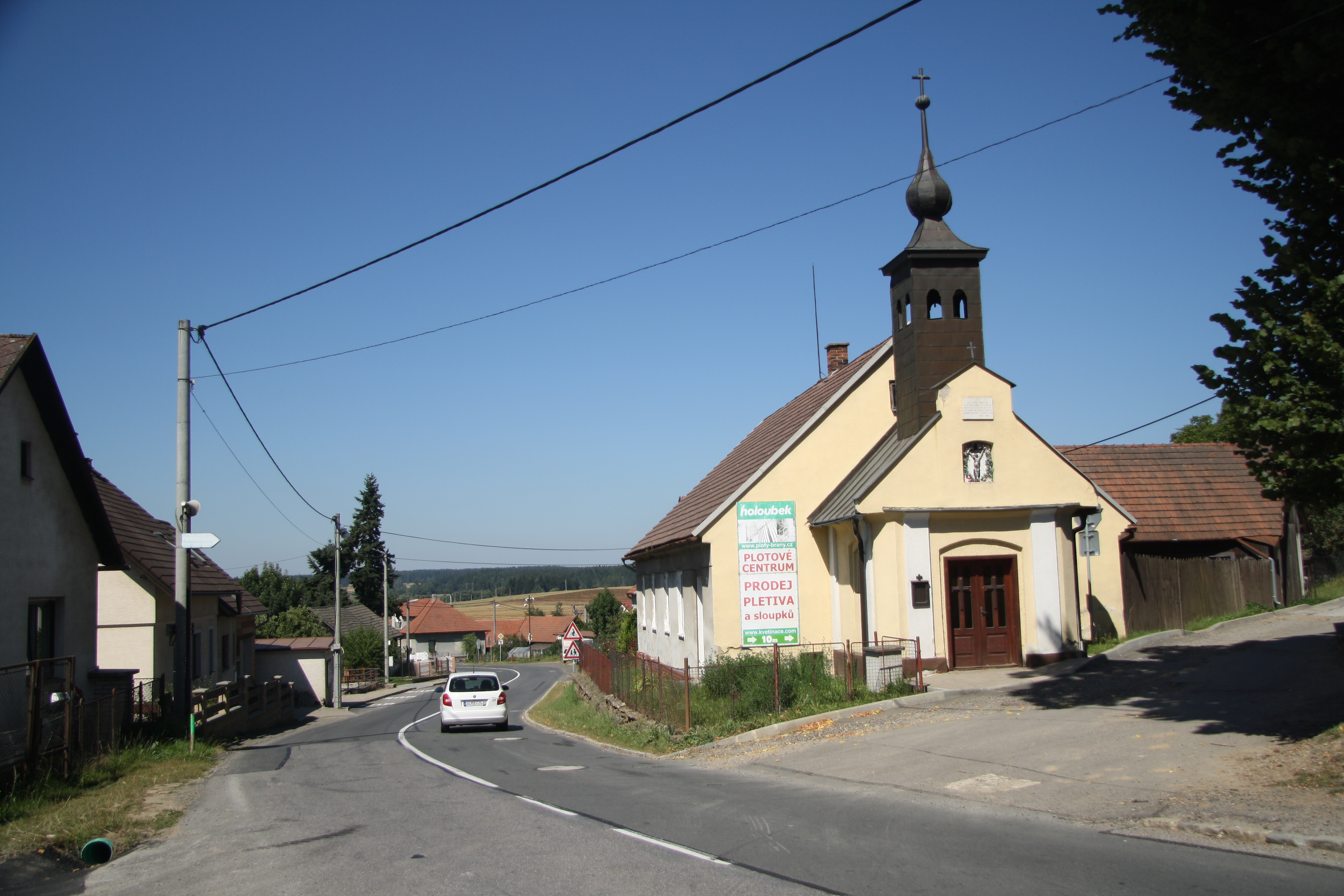 Center and chapel of Virgin Mary in Sklené nad Oslavou, Žďár nad Sázavou District.